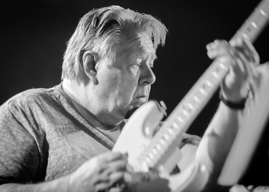 Terje Rypdal in concert with Palle Mikkelborg at Røverstaden. The concert was part of Oslo Jazzfestival and took place on 16. August 2018 in Oslo. Lineup: Terje Rypdal (guitar) Palle Mikkelborg (trumpet) Ståle Storløkken (keyboard) Endre Hareide Hallre (bass guitar) Pål Thowsen (drums)